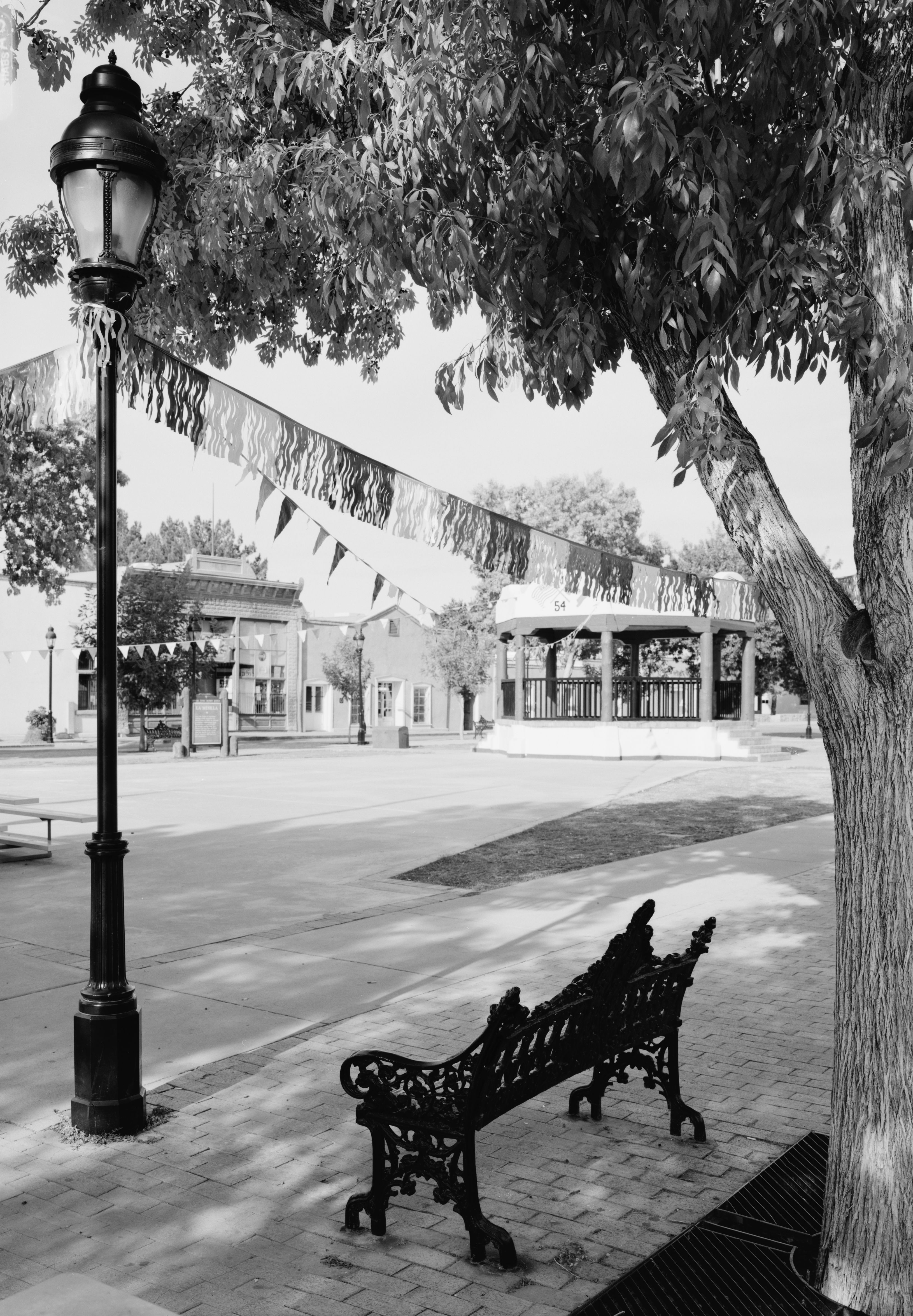 Plaza, Bounded by Calle de Principal, Calle de Parian, Calle de Guadalupe, and Calle de Santiago, Mesilla, Dona Ana County, NM